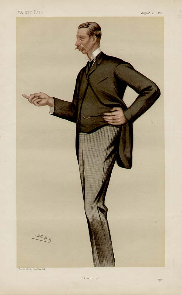 Caricature of The Hon BEB FitzPatrick MP. Caption read "Barnie".